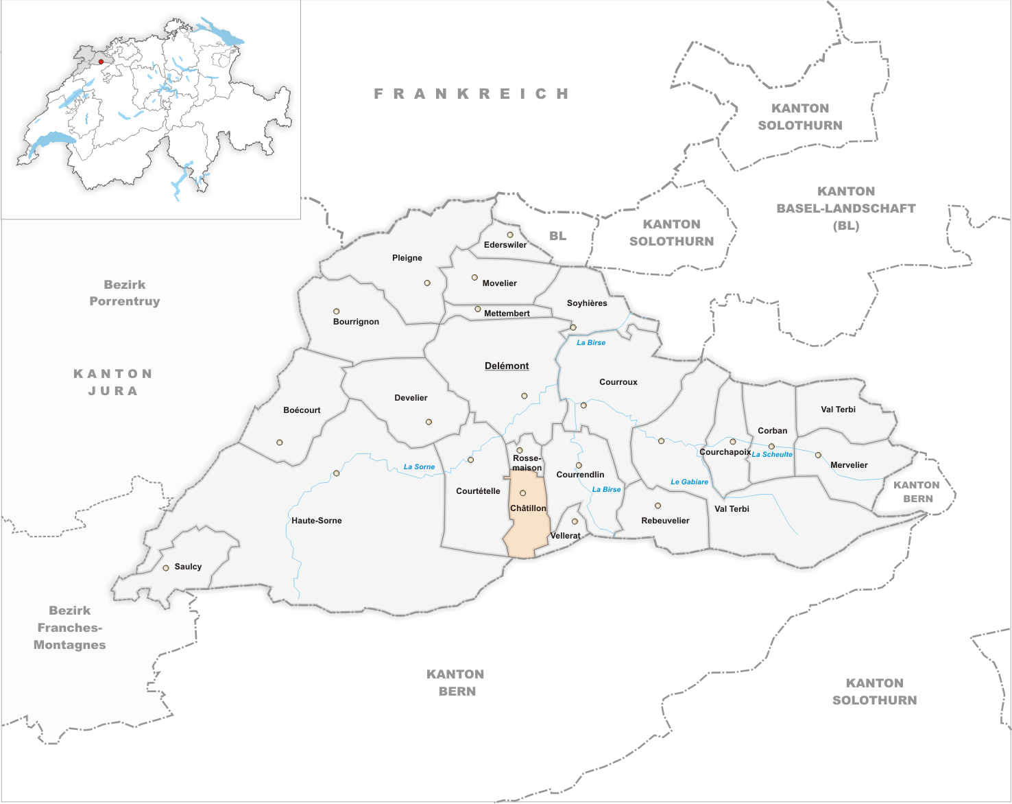 Municipality Châtillon